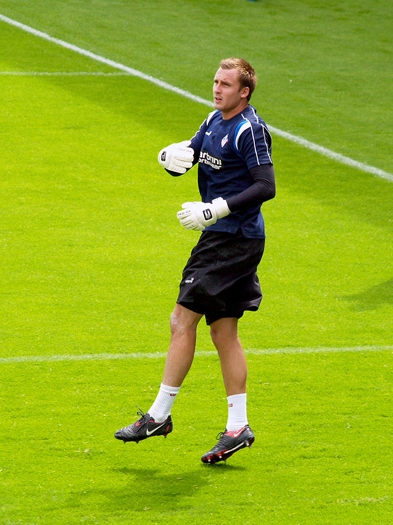 Oldham Athletic AFC goalkeeper Dean Brill during the warm up at Gigg Lane, home of Bury Football Club prior to the Bury vs. Oldham Athletic friendly game. Saturday 18th July 2009